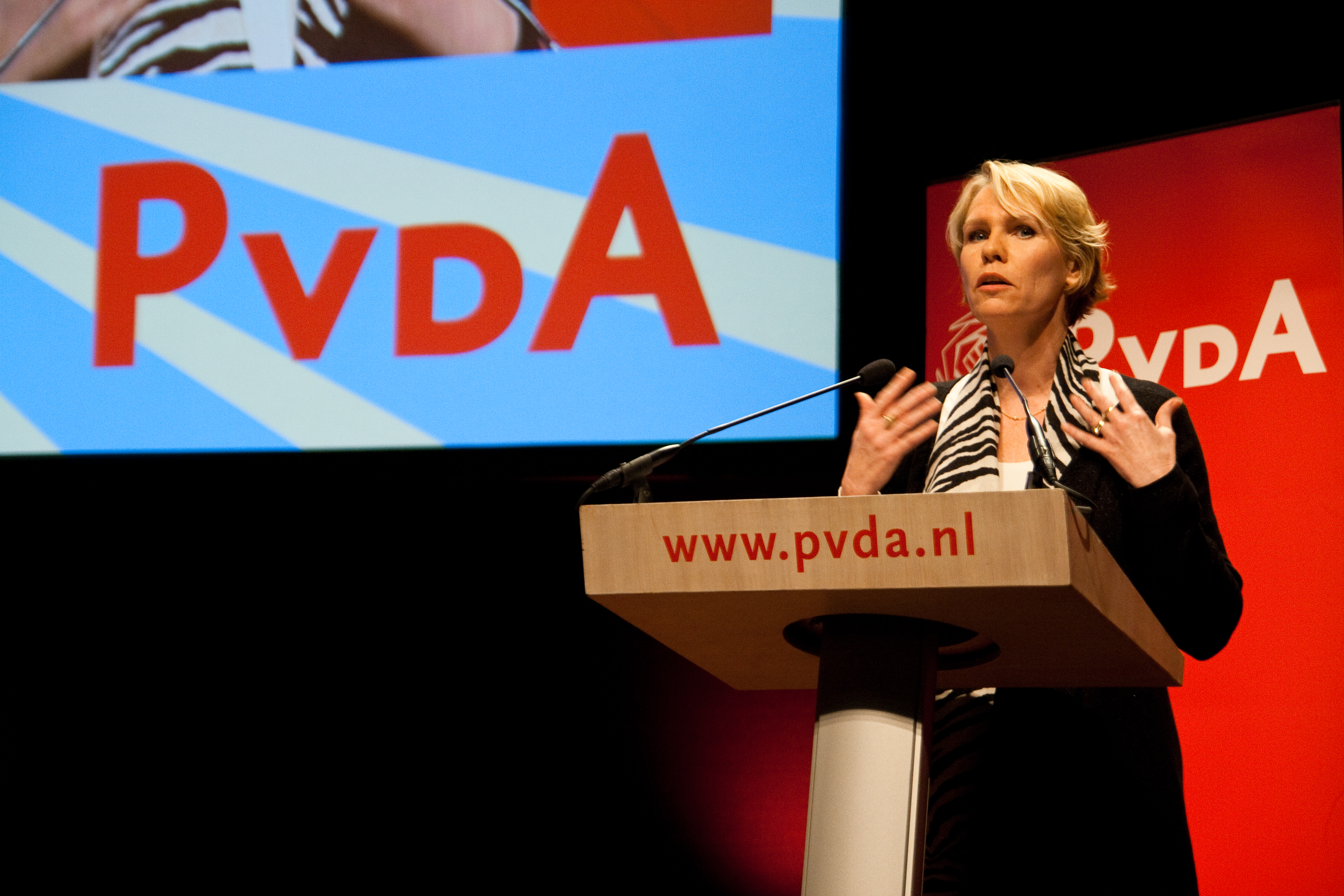 Marleen Barth gives a speech at the Dutch Labour Party congress in Groningen.